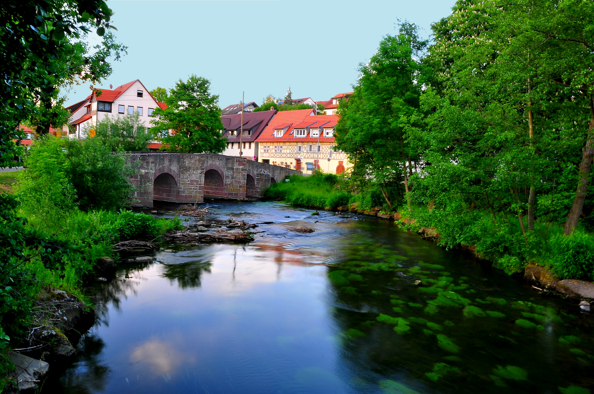 Wuerm Bridge in Weil der Stadt-Hausen / 2012